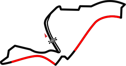 Multiple DRS zones on Valencia Street Circuit